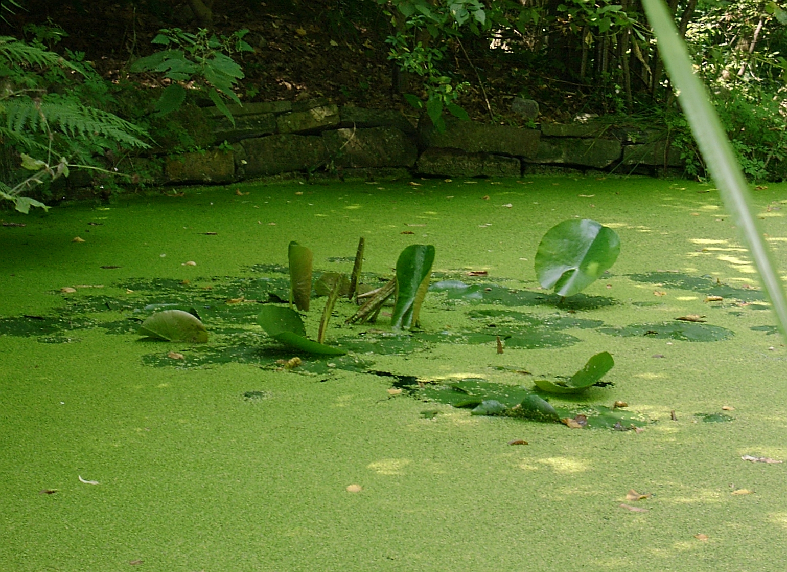 Garden pond covered by Lemna